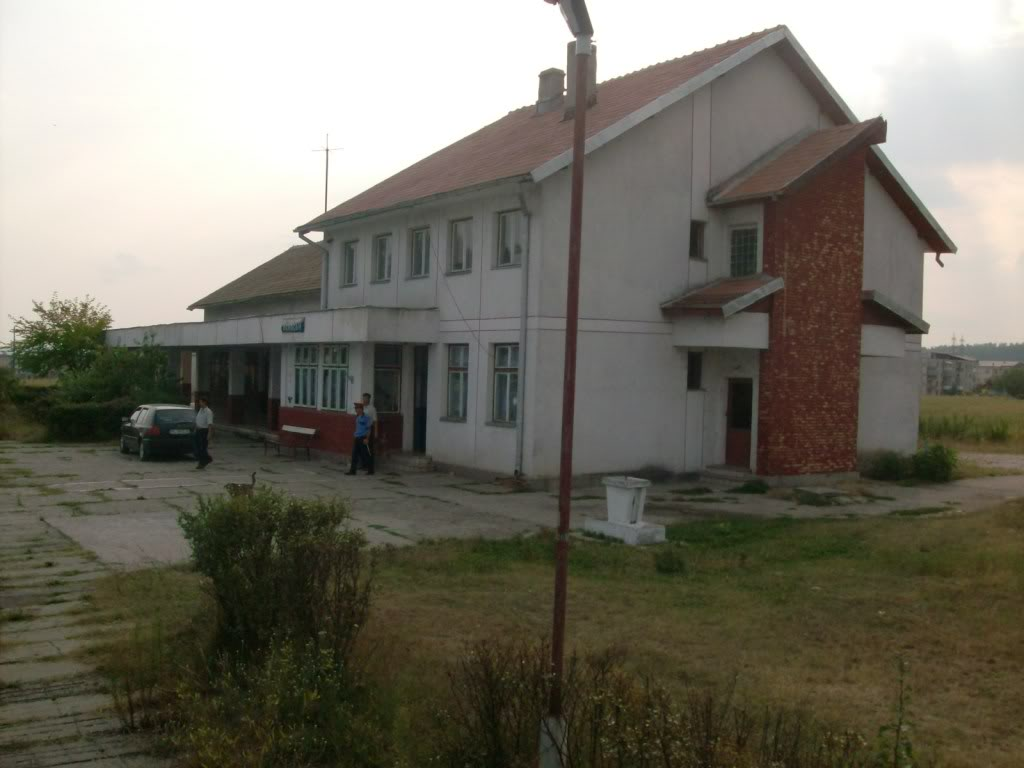 Staţia Berbeşti (Berbeşti railway station)